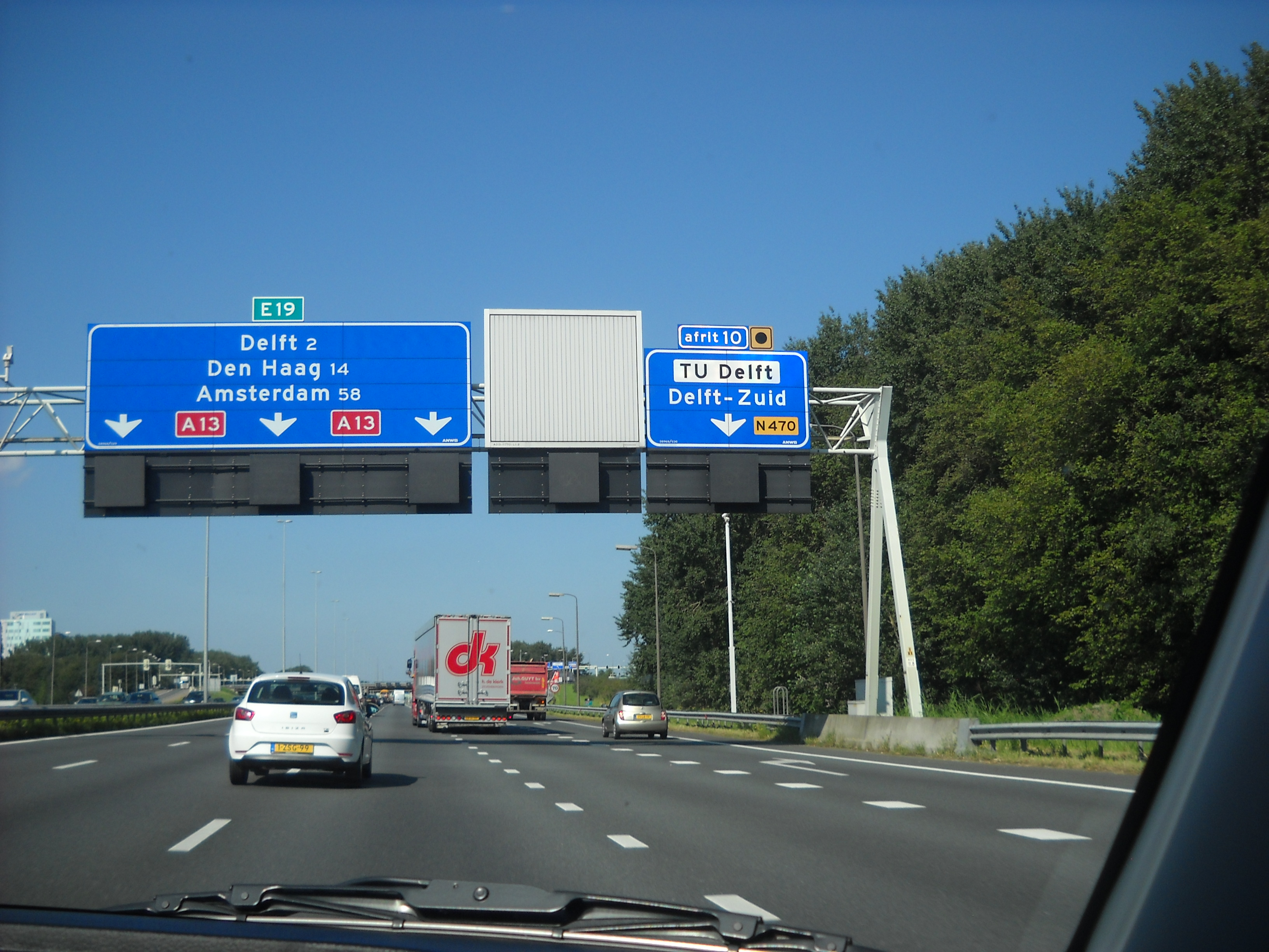 A13 Dutch Motorway